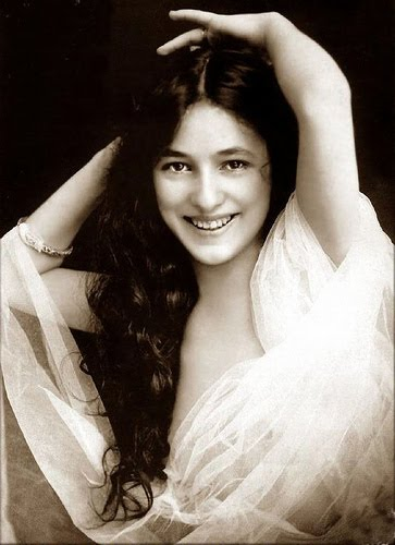 Evelyn Nesbit